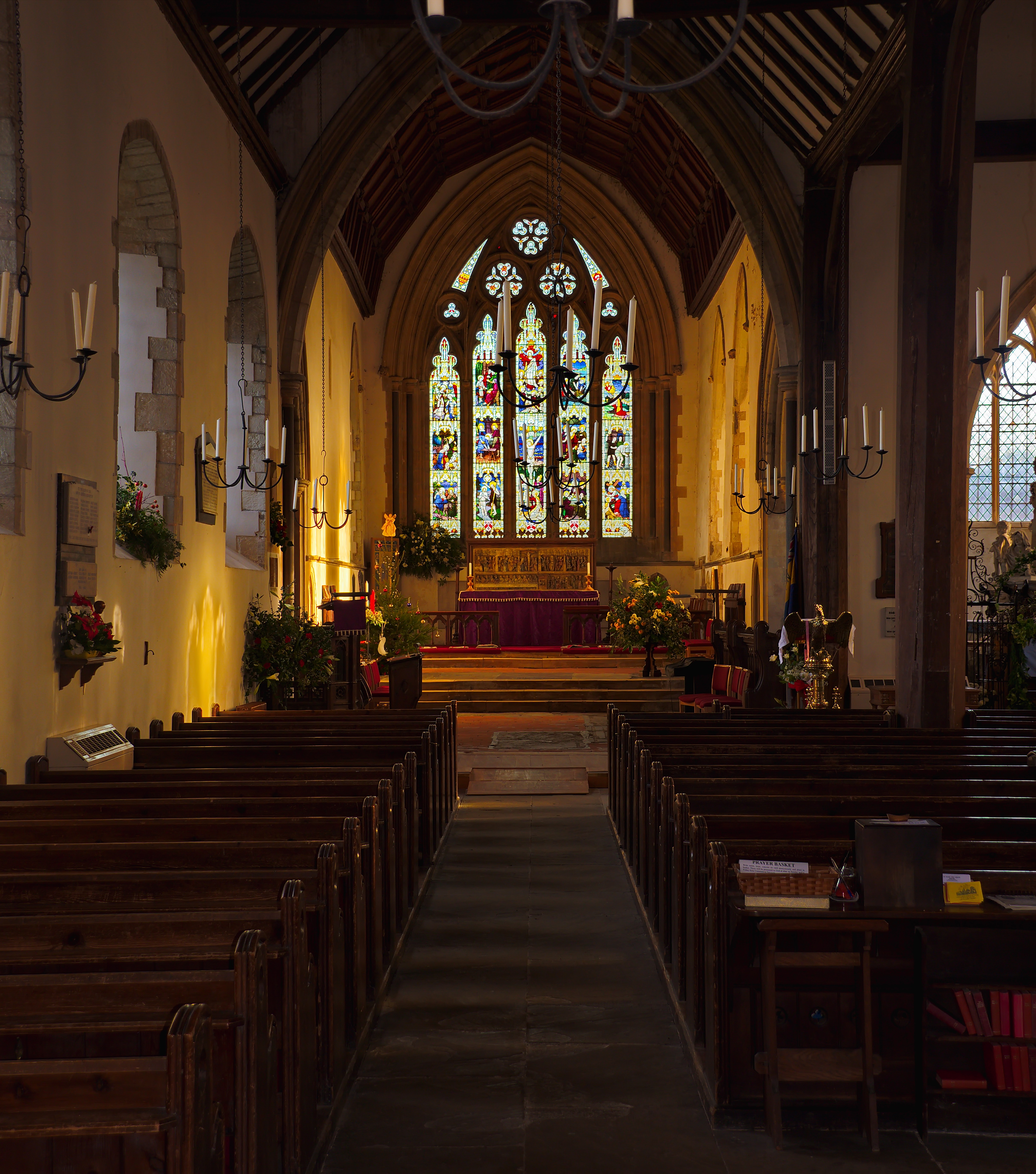 The nave and chancel of St Mary's Church in Wingham, Kent.